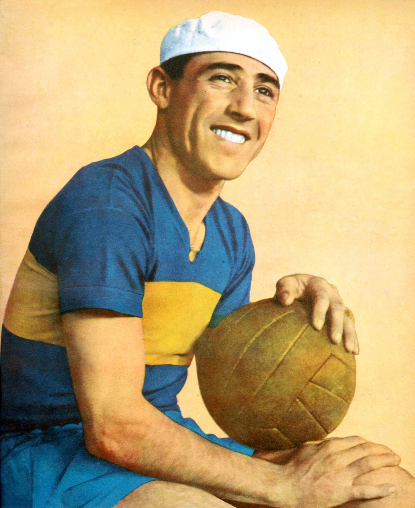 Severino Varela posing with the Boca Jrs jersey